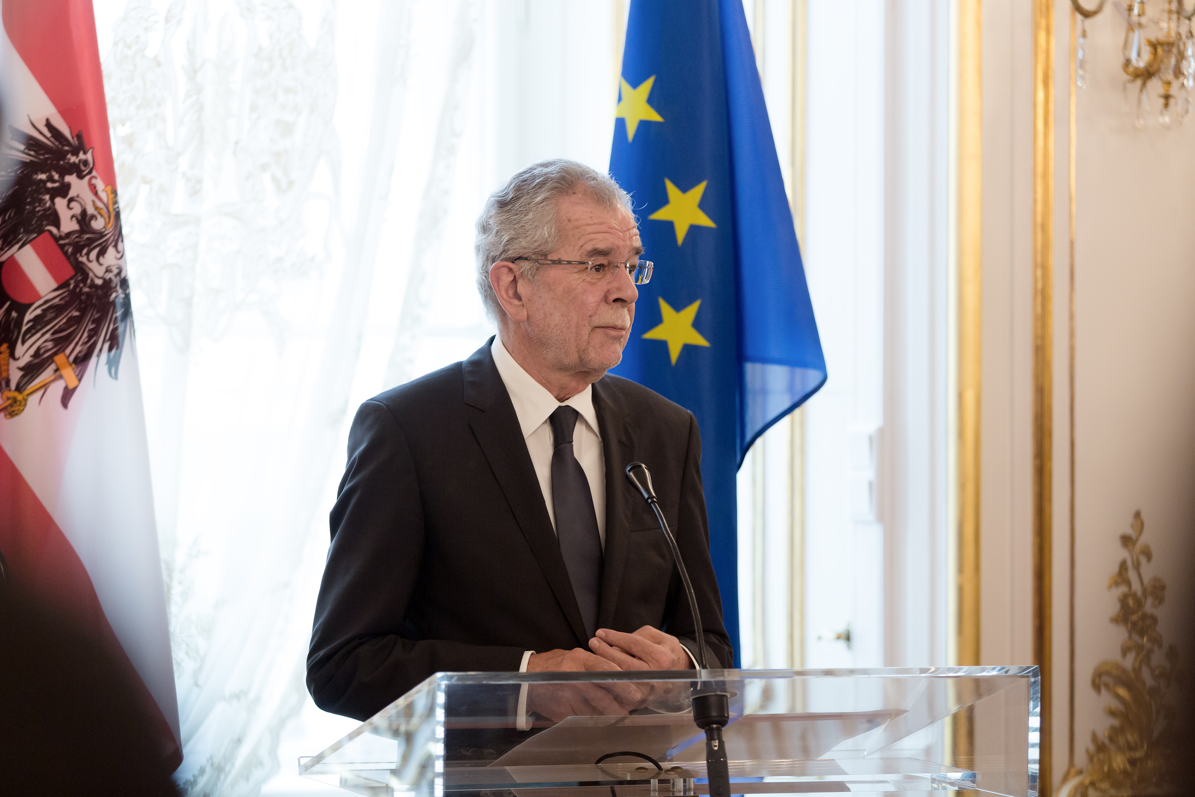 Reception of the Austrian women's national football team for the UEFA Women's Euro 2017 by federal president Alexander Van der Bellen at Hofburg in Vienna, Austria.